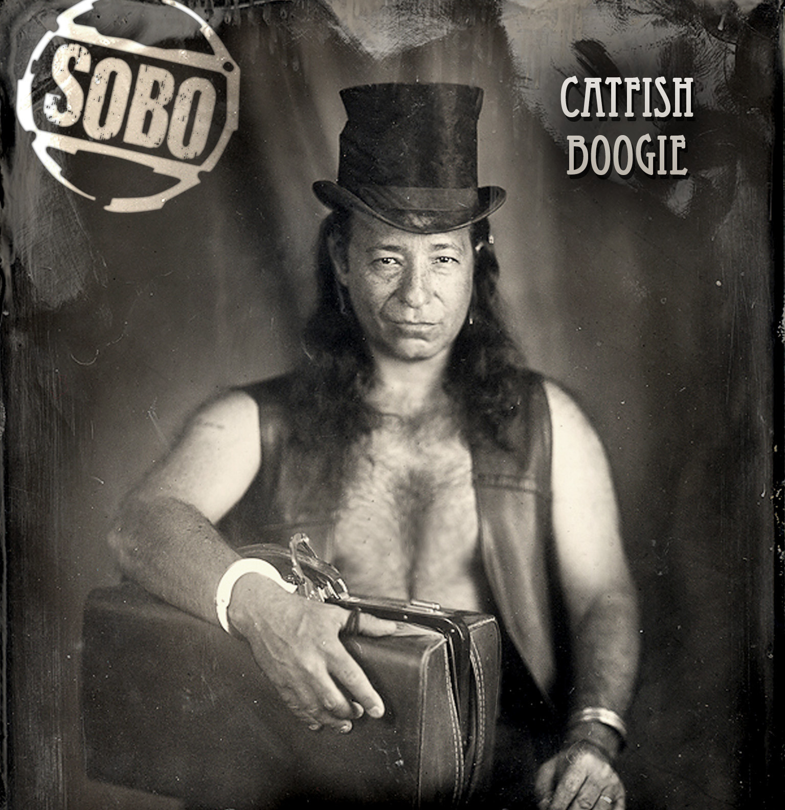 cover of the "Catfish Boogie" album by SOBO